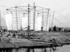 Chinese vertical-axis wind irrigation machine using sail carousel (VAWT)Chinese vertical shaft type windmill for Chinese square-pallet chain-pumps for rice fields.